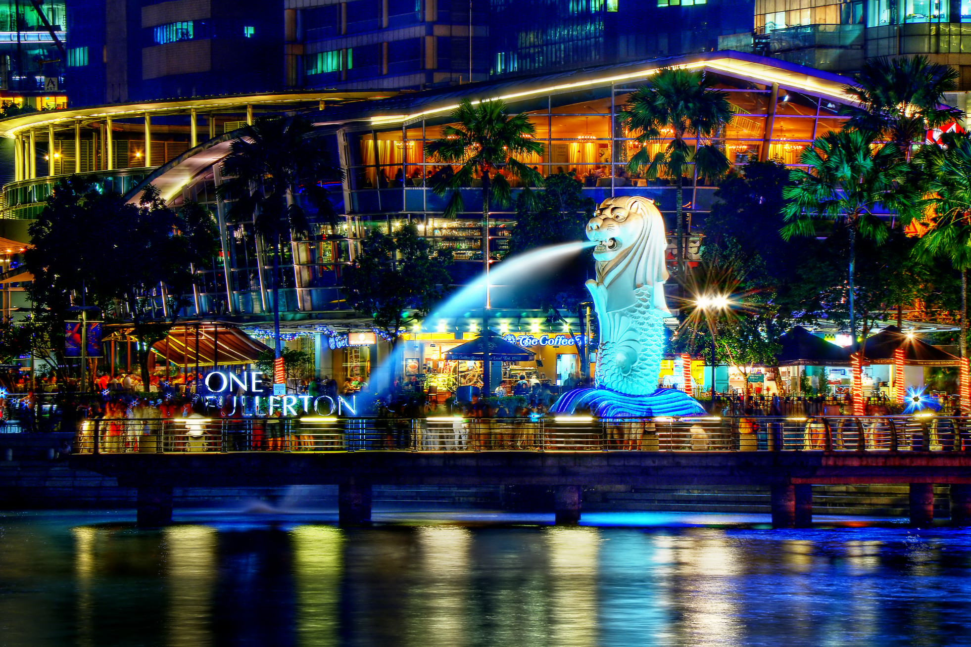 Merlion statue in front of One Fullerton